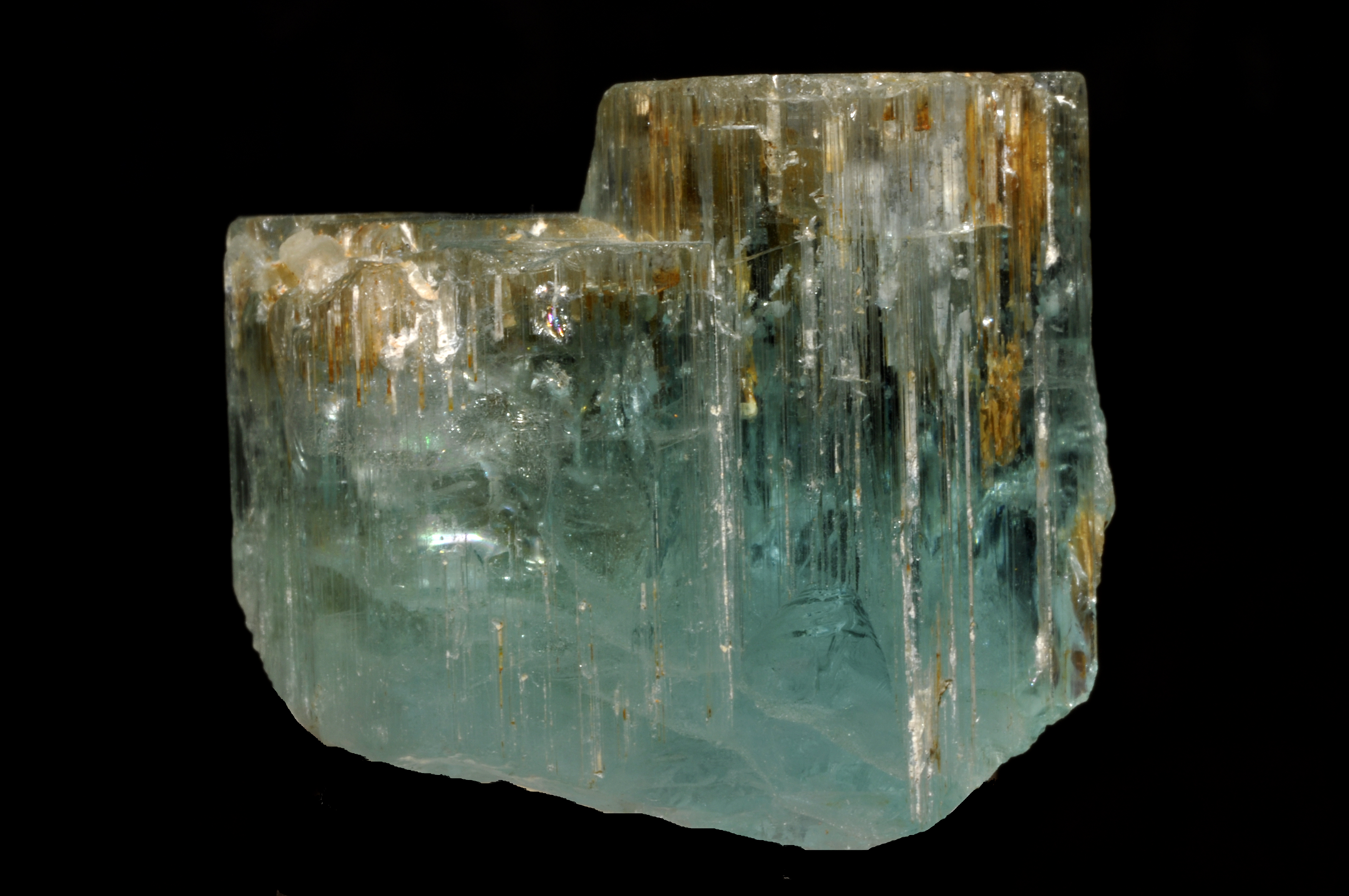 Aquamarine